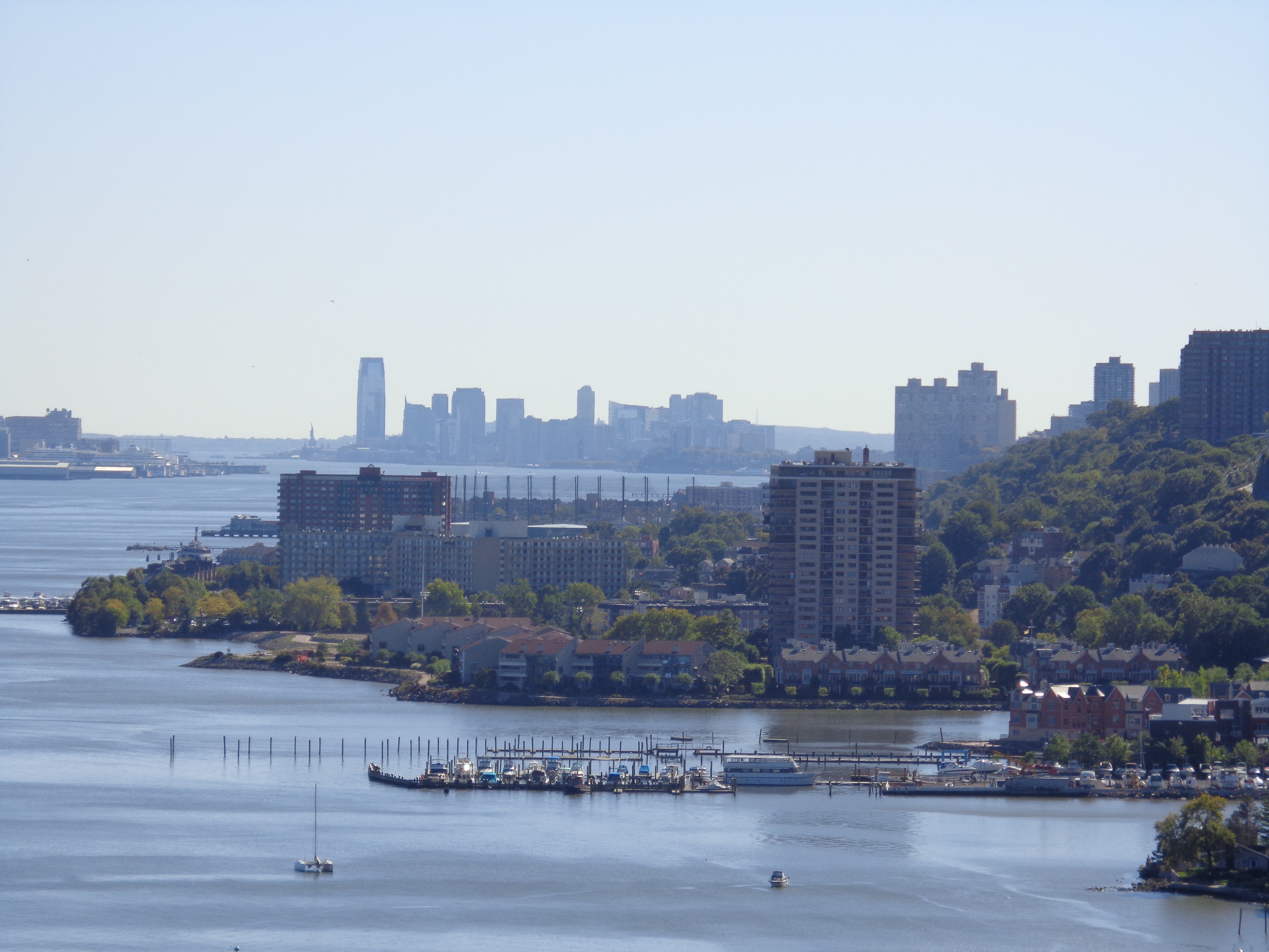 HudsonRiverWaterfront looking south from GWBridge (Fort Lee to Jersey City)